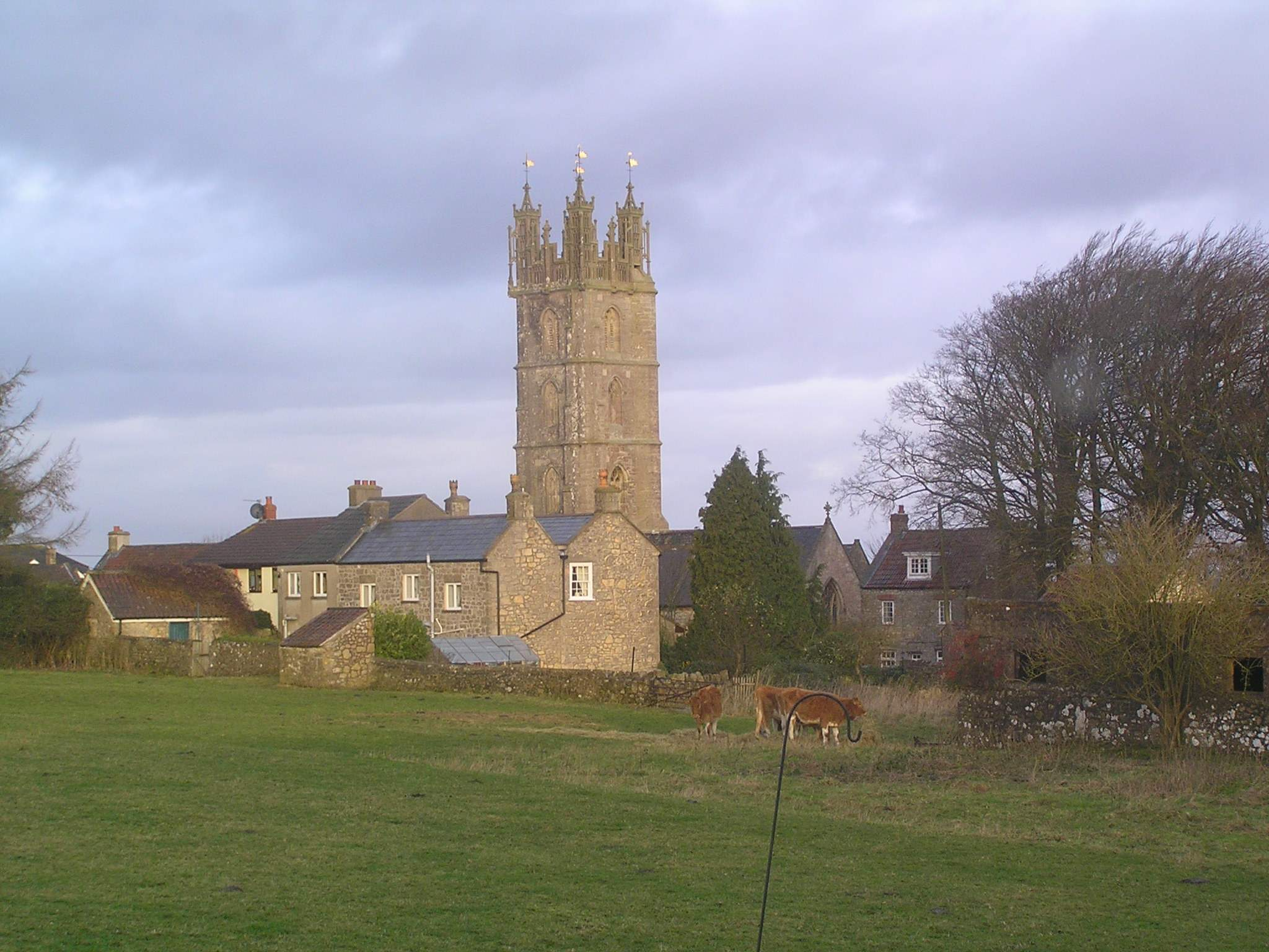 View northwest across a cattle pasture at Dundry, Somerset. On the left is Yew Tree Farmhouse. Beyond it is the west tower of St Michael the Archangel parish church